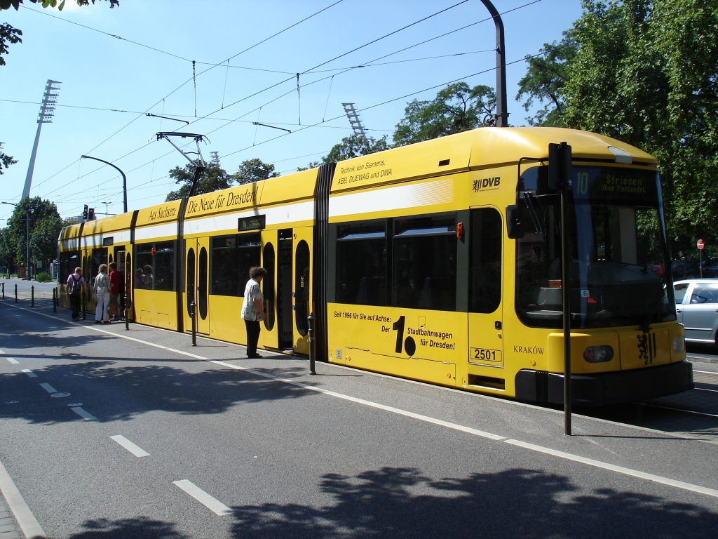 Tram in Dresden; August 29, 2005